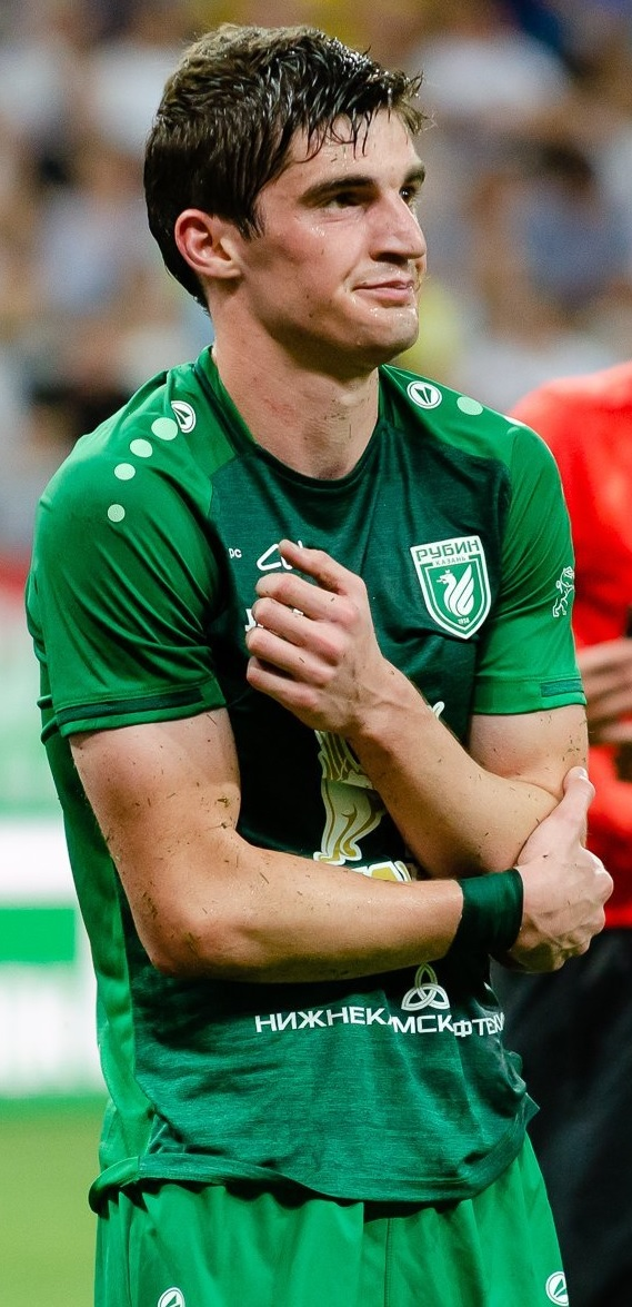 Konstantin Pliyev with FC Rubin Kazan in a game against FC Rostov.